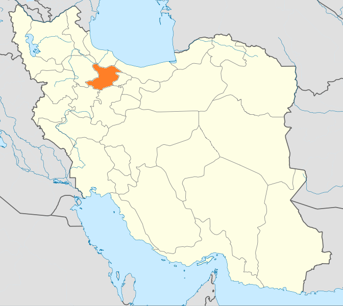 Locator map of Iran